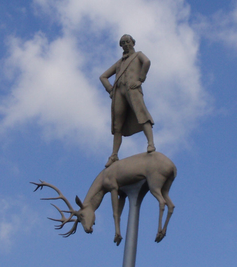 Peter Lenk, Hölderlin im Kreisverkehr